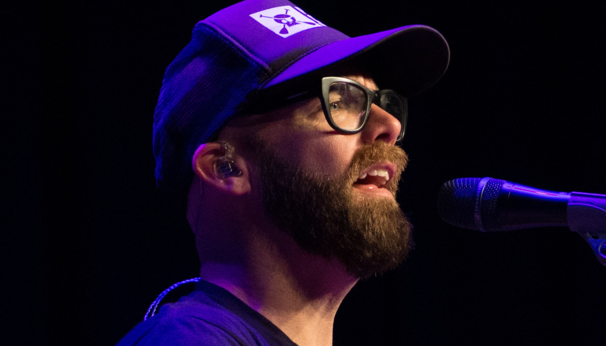 Tim Timmons performing on October 24, 2014.